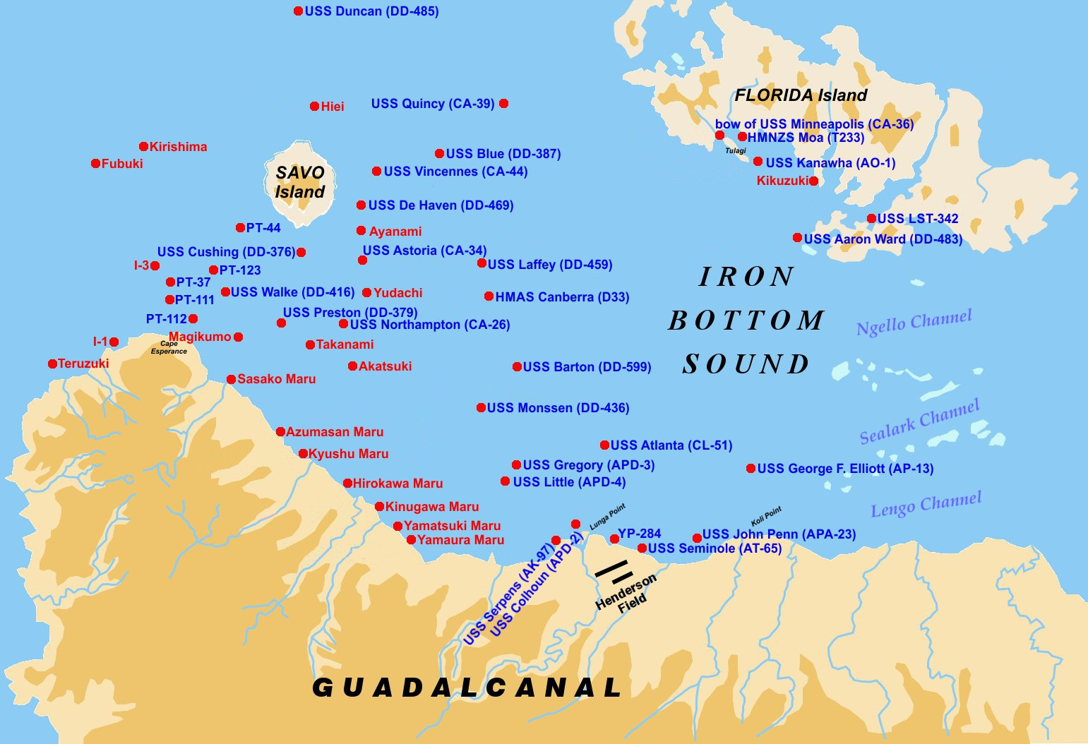 Map of the location of World War II shipwrecks in Ironbottom Sound in the Solomon Islands. Some wreck positions are not exactly known.